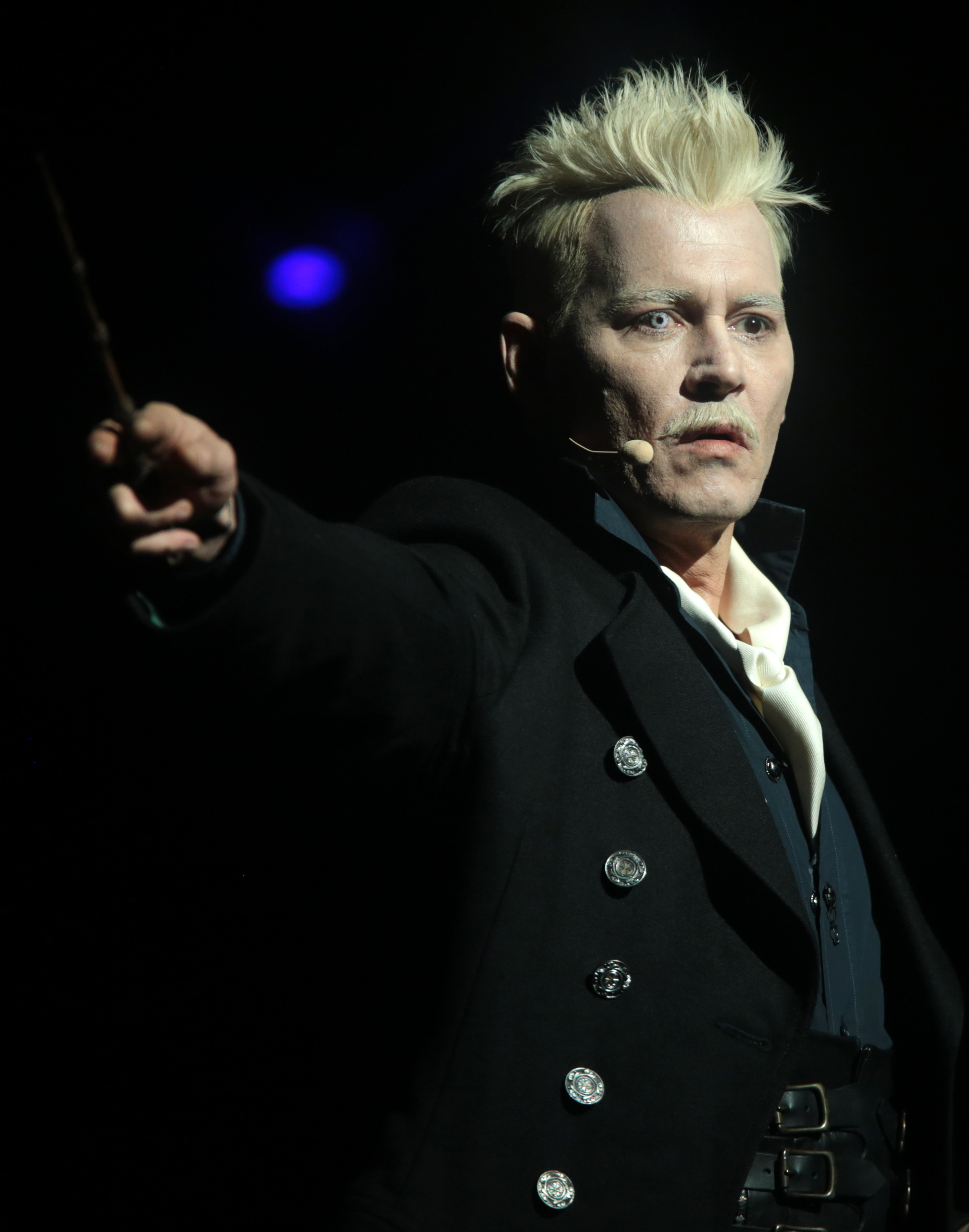 Johnny Depp speaking at the 2018 San Diego Comic-Con International in San Diego, California.